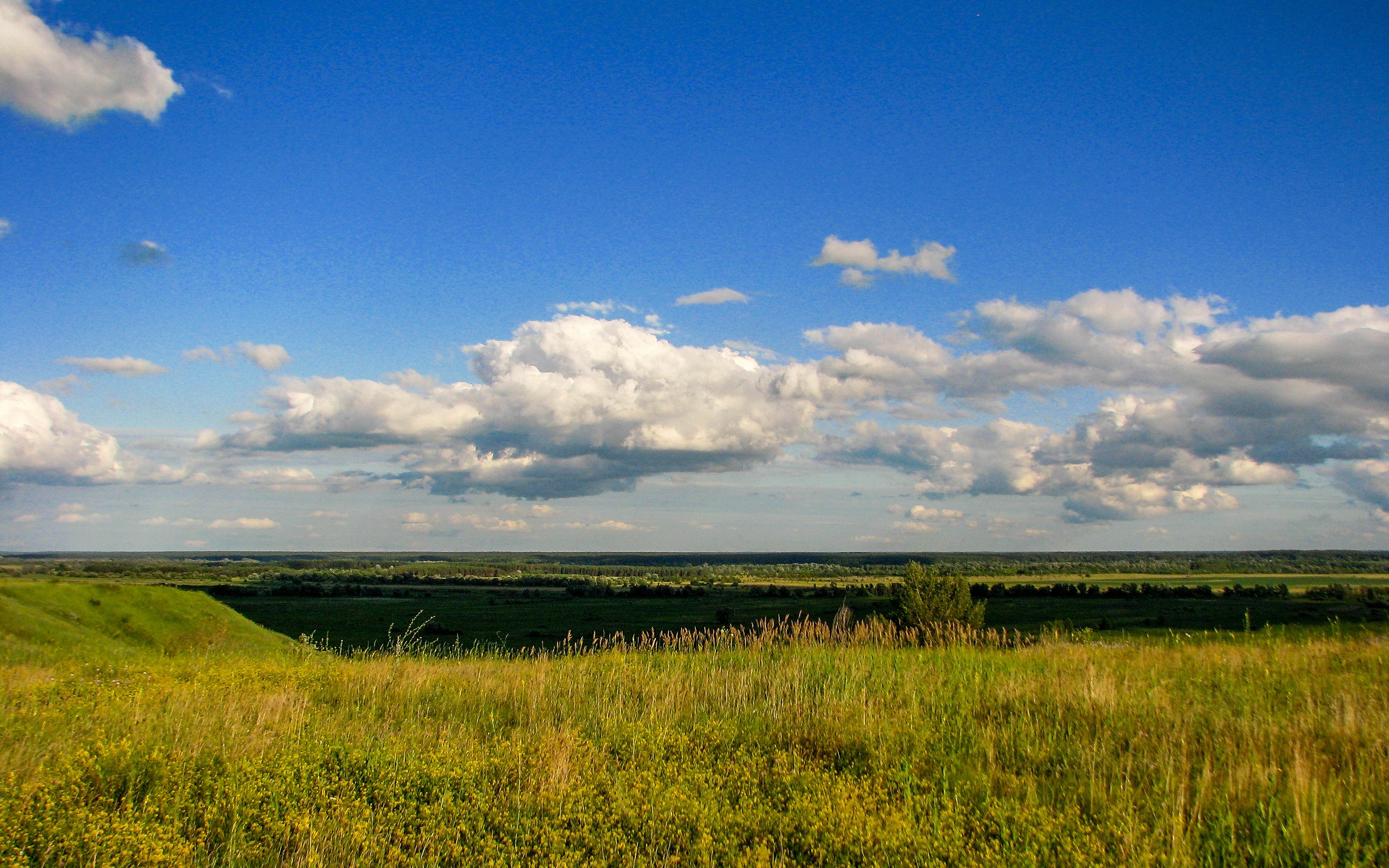 Seimskyi Landscape Park